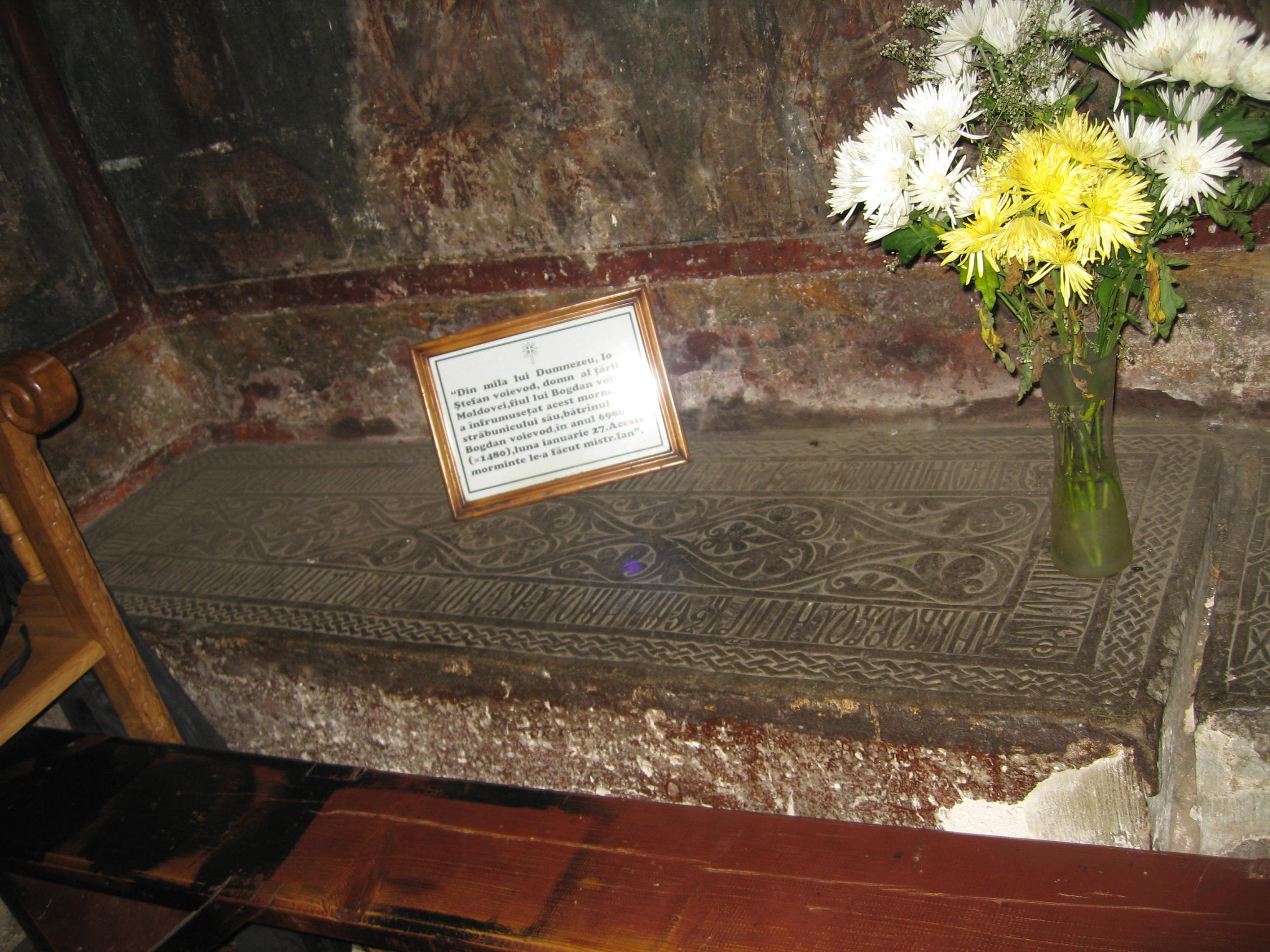 Bogdana